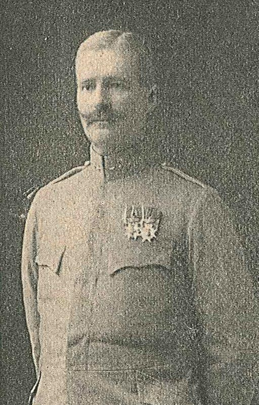 Lennart Reuterskiöld (1859-1944), Swedish nobleman, officer and civil servant; county governor of Södermanland County 1906-1927.